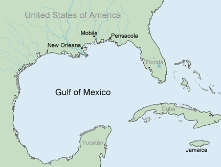 Map of the Gulf of Mexico showing New Orleans, Mobile, Pensacola. Created to illustrate biography of Stirling.